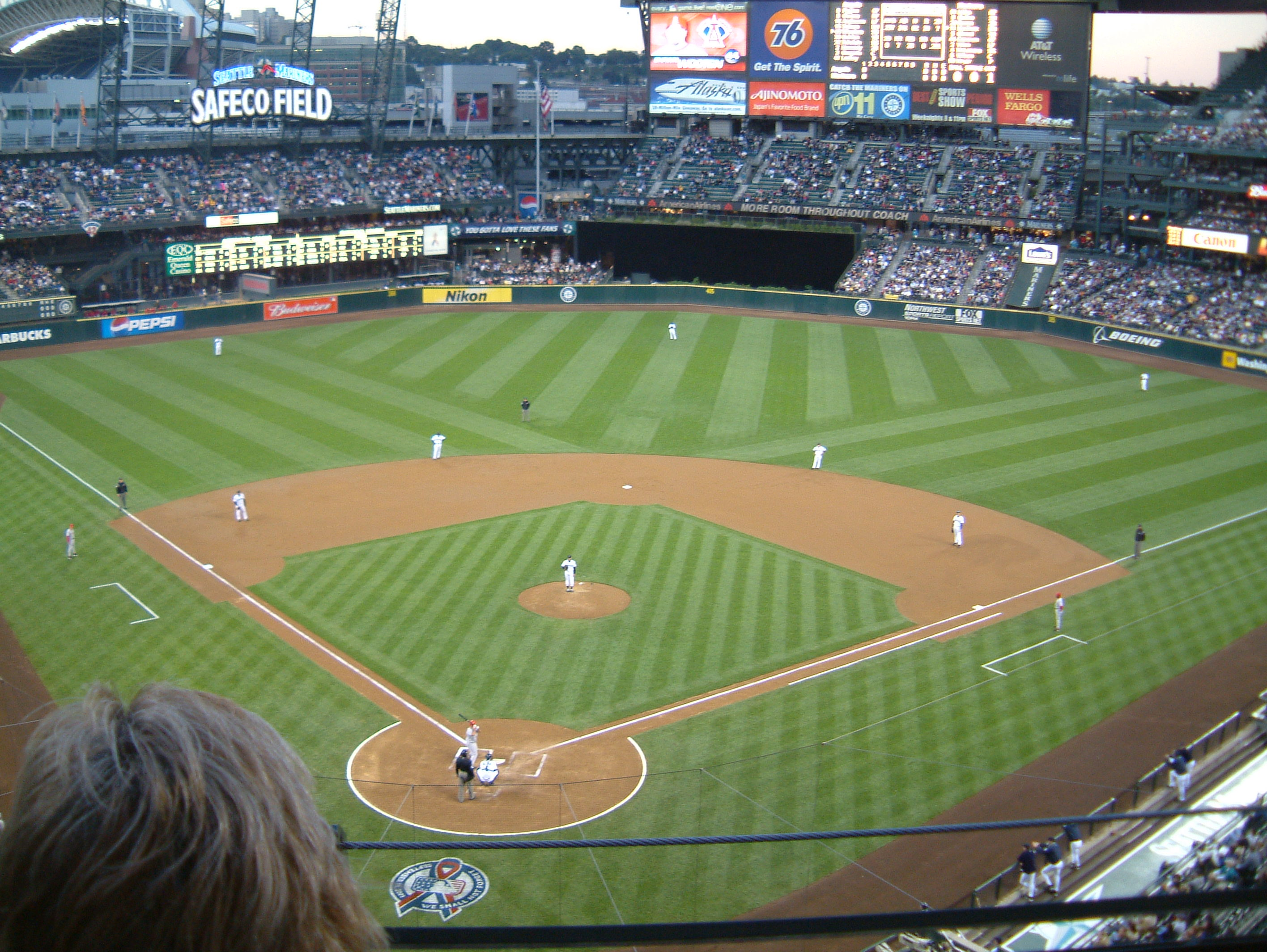 The second Anaheim batter has just come up to bat in the second inning September 12, 2003. The Mariners would go on to win 7-4.